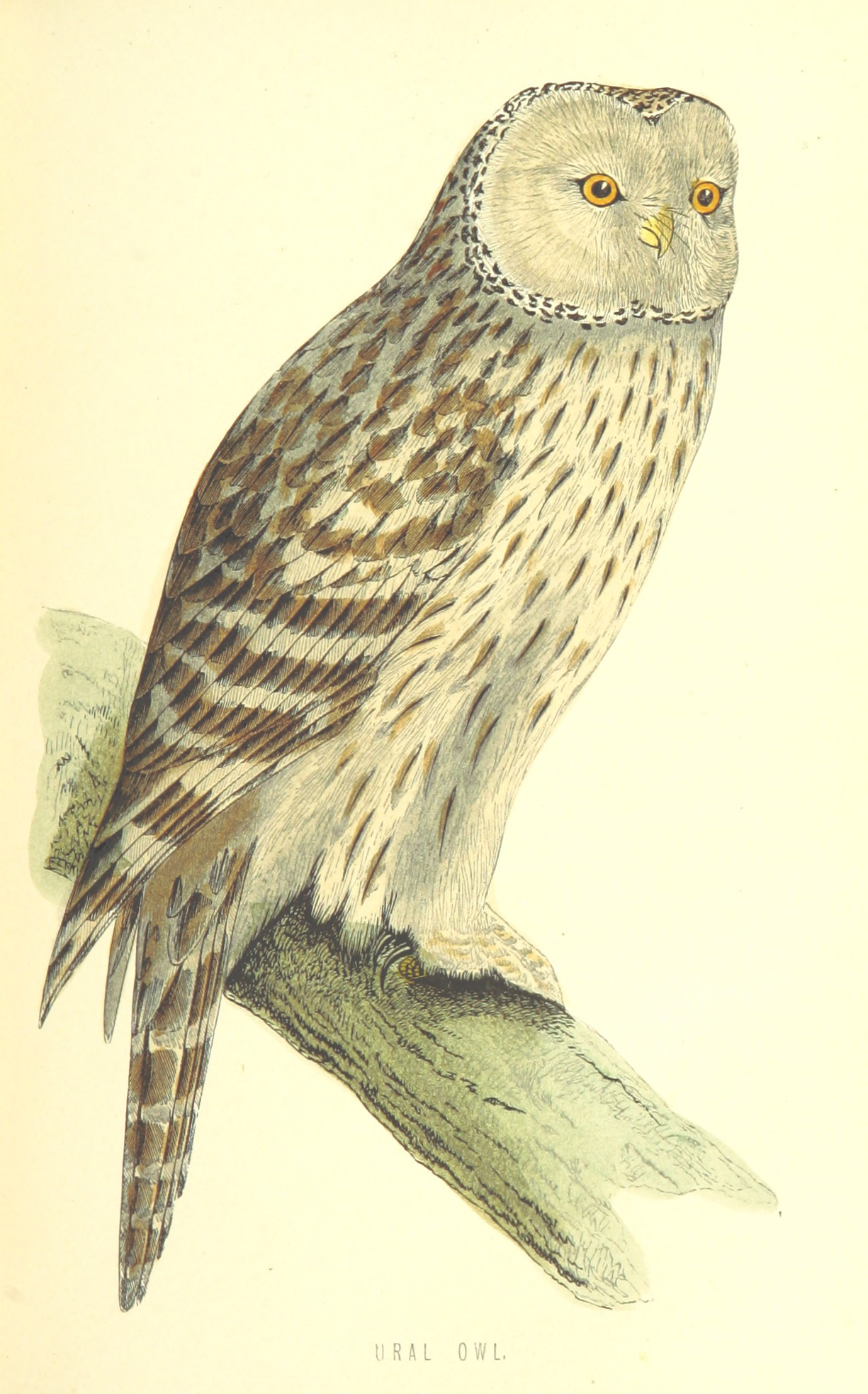 Image taken from: Title: "[A Spring and Summer in Lapland: with notes on the fauna of Luleä Lapmark. [By H. W. Wheelwright. ", "Appendix" Shelfmark: "British Library HMNTS 10281.bb.40." Page: 93 Place of Publishing: London Date of Publishing: 1871 Edition: Second edition, with coloured plates. Issuance: monographic Identifier: 002076016 Explore: Find this item in the British Library catalogue, 'Explore'. Open the page in the British Library's itemViewer (page image 93) Download the PDF for this book Image found on book scan 93 (NB not a pagenumber)Download the OCR-derived text for this volume: (plain text) or (json) Click here to see all the illustrations in this book and click here to browse other illustrations published in books in the same year. Order a higher quality version from here.